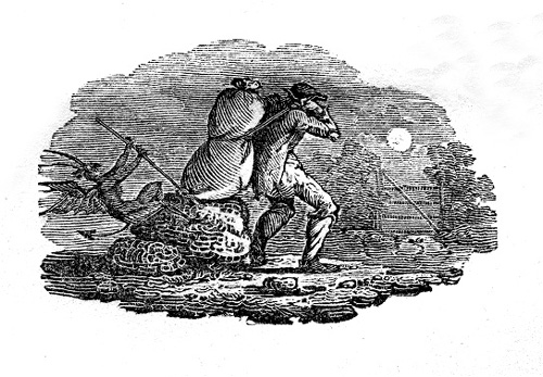 Vignette from Thomas Bewick's A History of British Birds (Newcastle-on-Tyne, 1805, vol. 2, p. 323), mentioned in Charlotte Brontë's Jane Eyre (""The fiend pinning down the thief's pack behind him, I passed over quickly: it was an object of terror" — chapter 1)